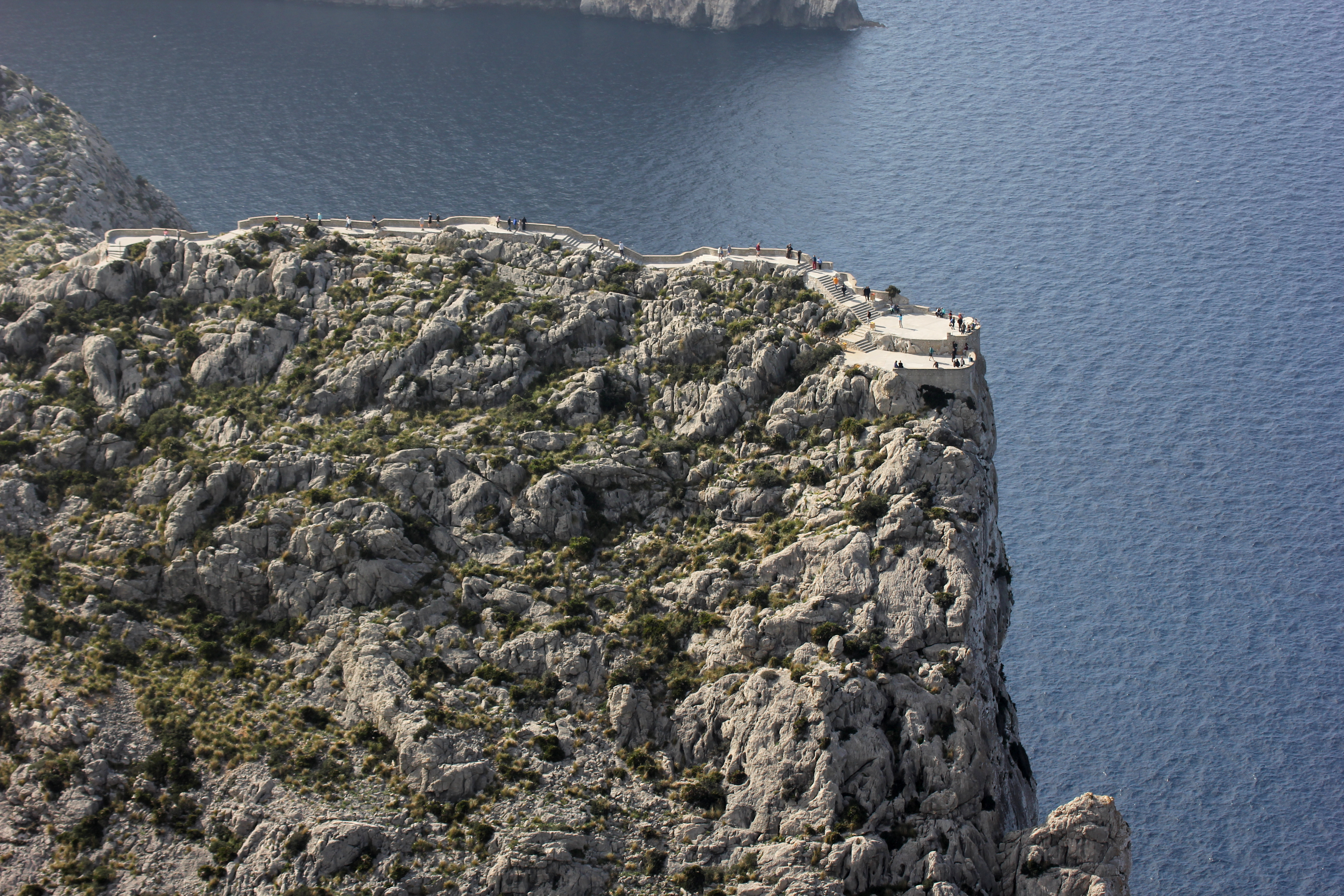 Observationpoint at Cap de Formentor, Mirador del Mal Pas.